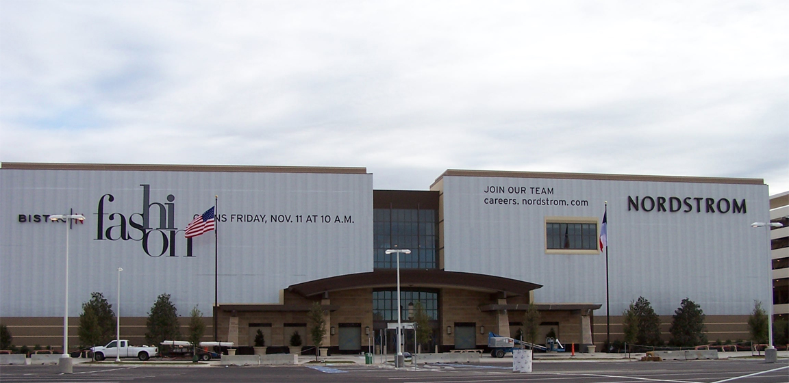 Nordstrom NorthPark Center Dallas